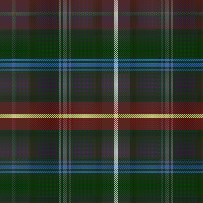 The official tartan of the Canadian province of Manitoba, created in 1962. Thread count: 12 maroon 4 yellow 12 maroon 2 green 4 dark green 24 green 2 azure 2 green 4 azure 2 green 2 azure 24 green 4 dark green 2 green